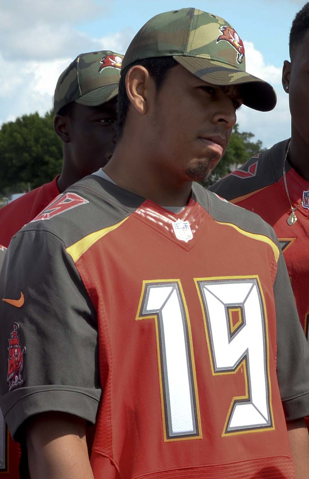 (Right) Staff Sgt. Benjamin Heard, Survival, Evasion, Resistance and Escape specialist, explains the use of survival tools to rookies of the Tampa Bay Buccaneers at MacDill Air Force Base, Fla. June 10, 2016. The rookies received the opportunity to test equipment, learn basic survival skills and sample food rations.